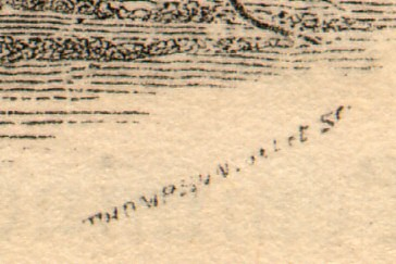 Thompson signature Del et Sc in Yarrell History of British Birds 1843. Most of the woodcuts in the book were drawn by Alexander Fussell, but this one (the Black Redstart) and a few others were both drawn and engraved by the engraver John Thompson (or one of his sons).